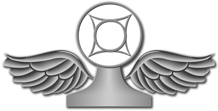 US Navy Air Traffic Controller (AC) a winged microphone.